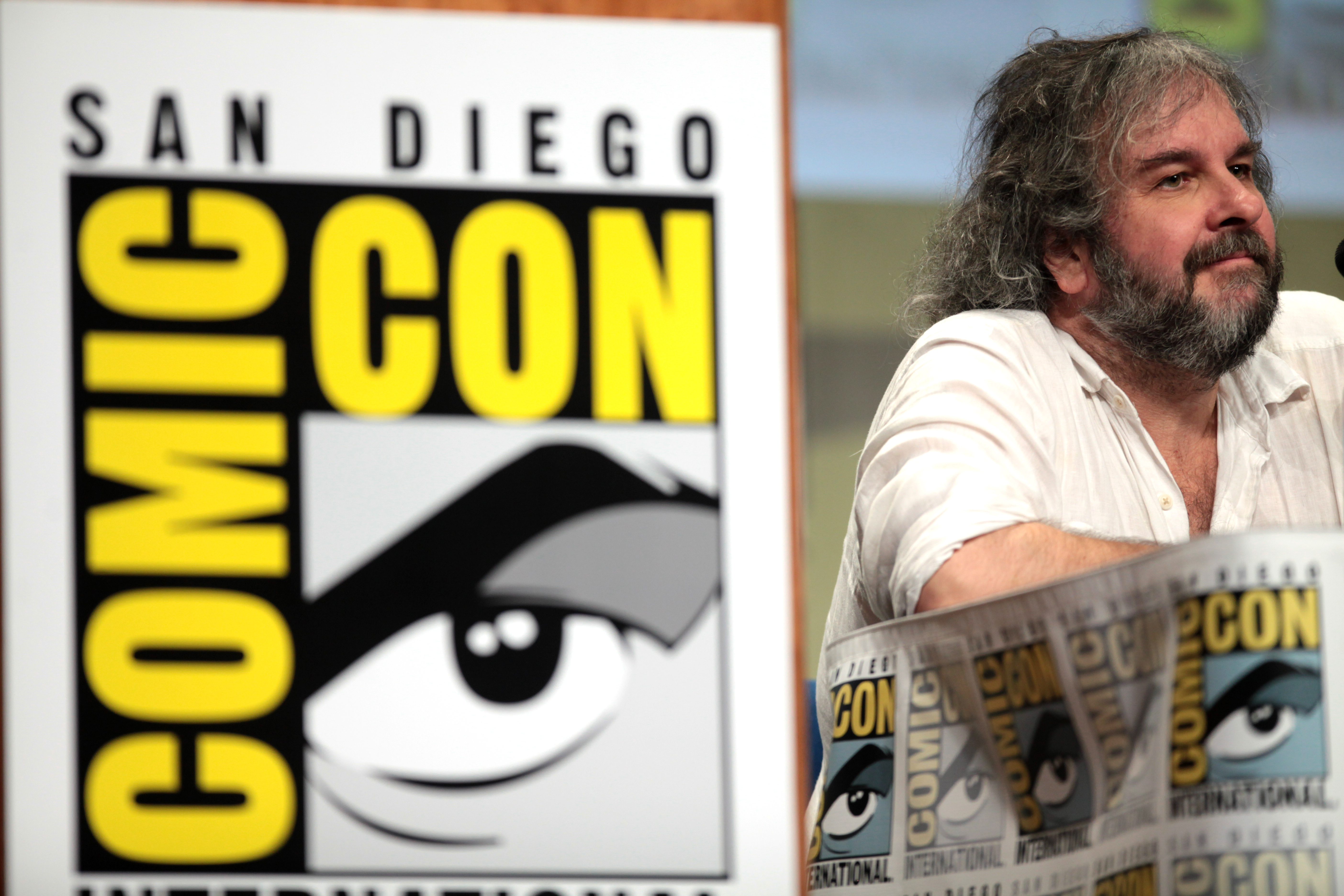 Peter Jackson speaking at the 2014 San Diego Comic Con International, for "The Hobbit: The Battle of Five Armies", at the San Diego Convention Center in San Diego, California on July 26, 2014. Photo by Gage Skidmore